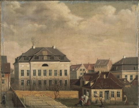 The rear side of Kirurgisk Institut as seen from a window in Fødselsstiftelsen at Amaliegade 25 in Copenhagen, Denmark